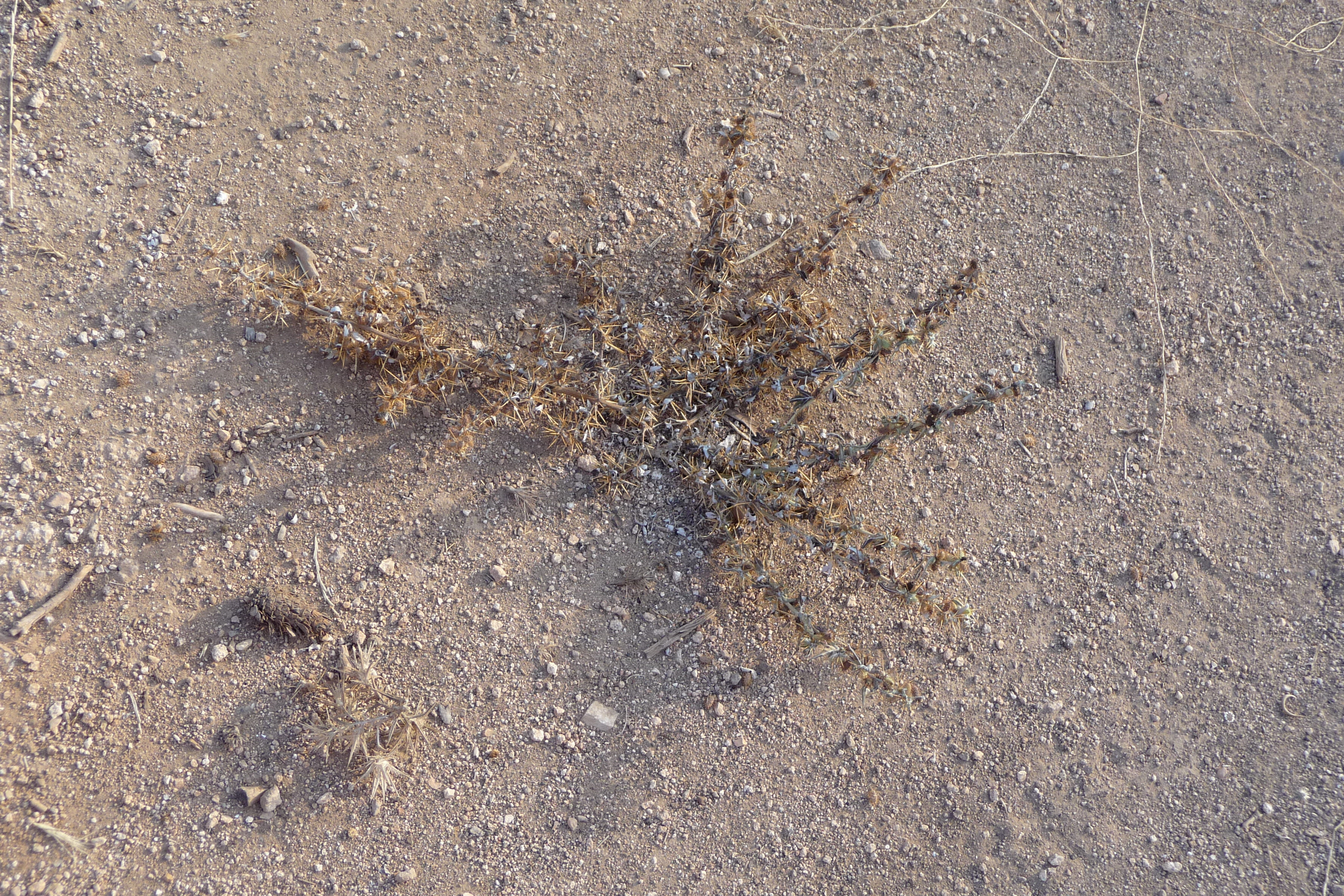 Mount Carmel